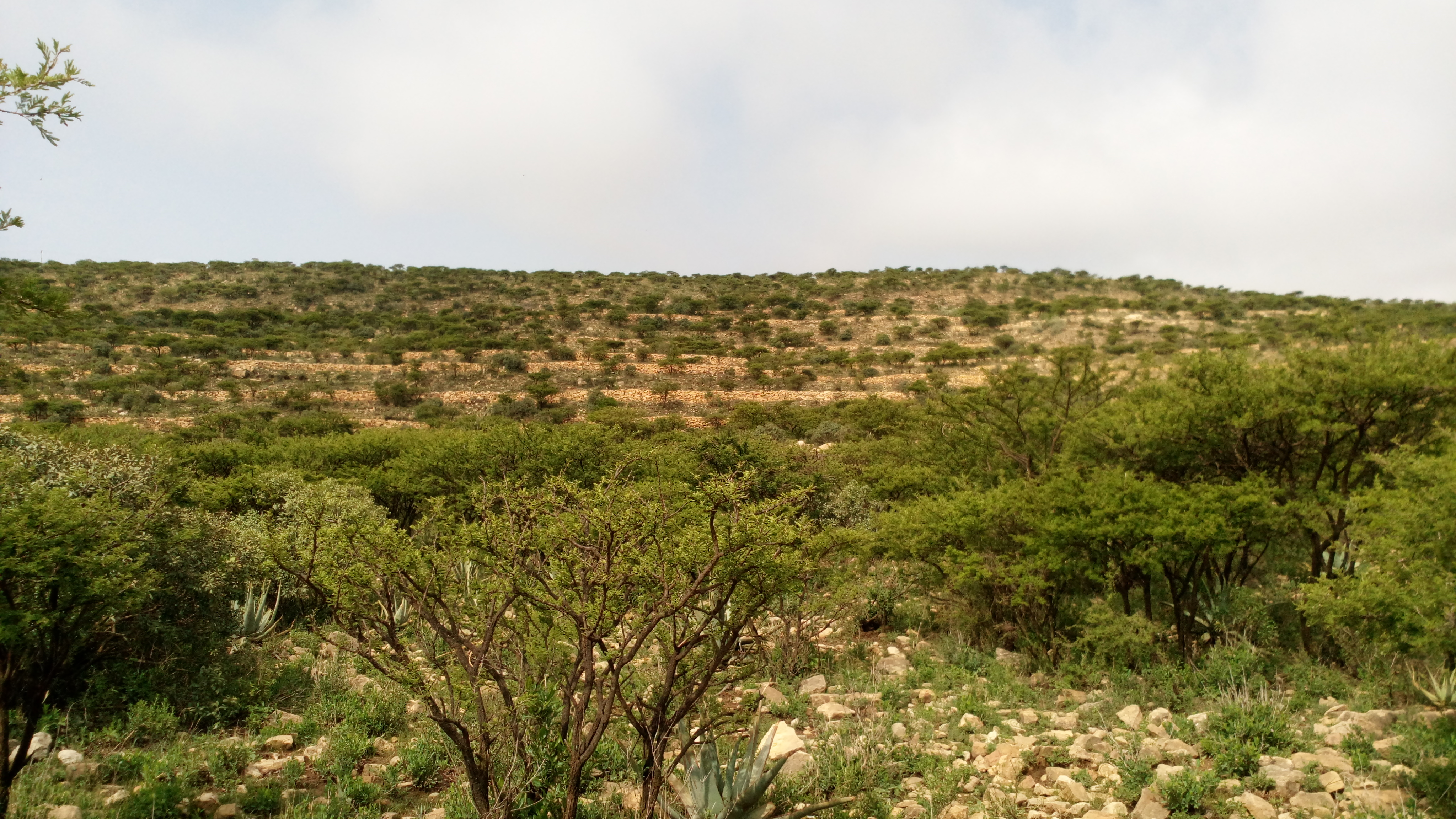 Afedena 2